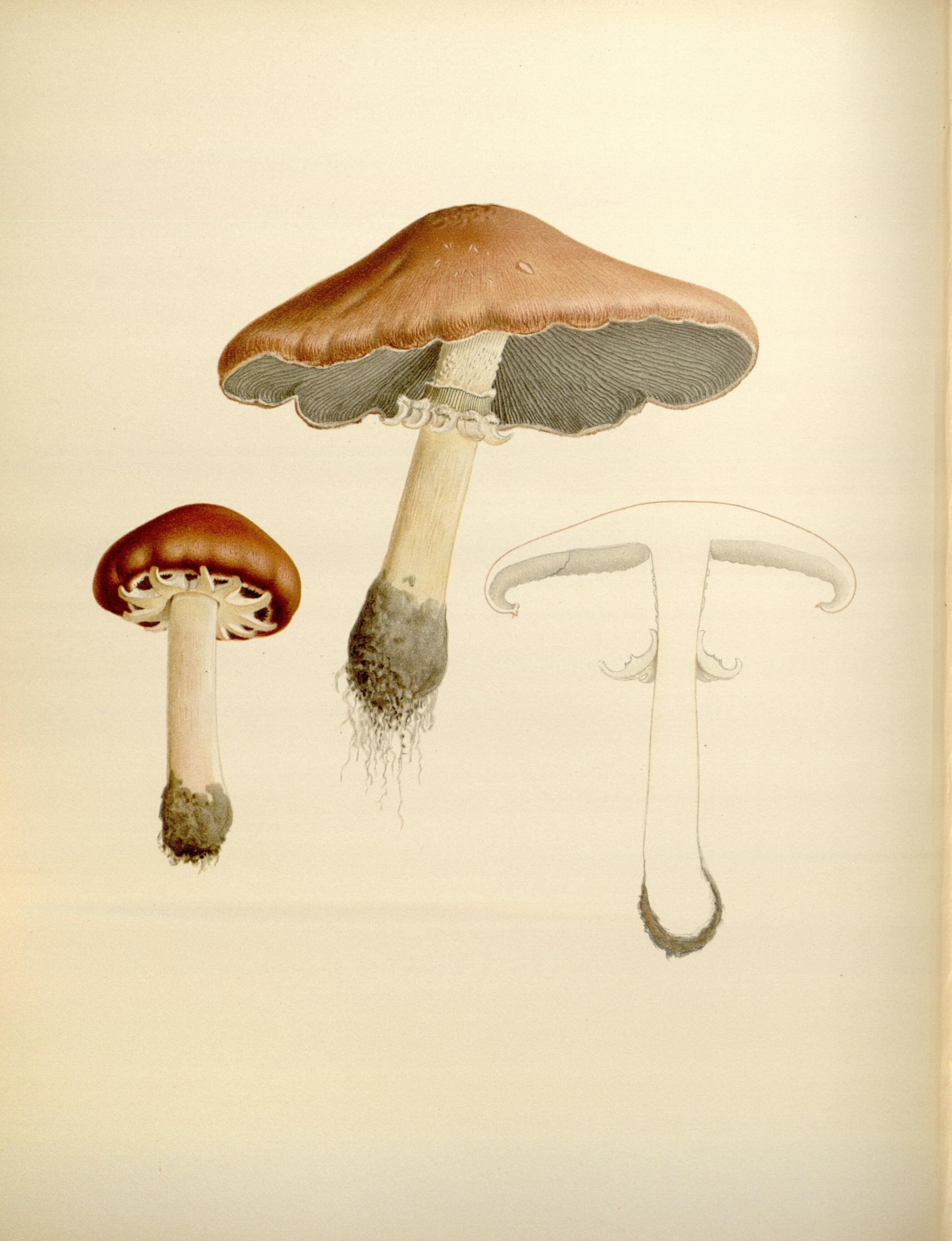 Icones Farlowianae :illustrations of the larger Fungi of eastern North America